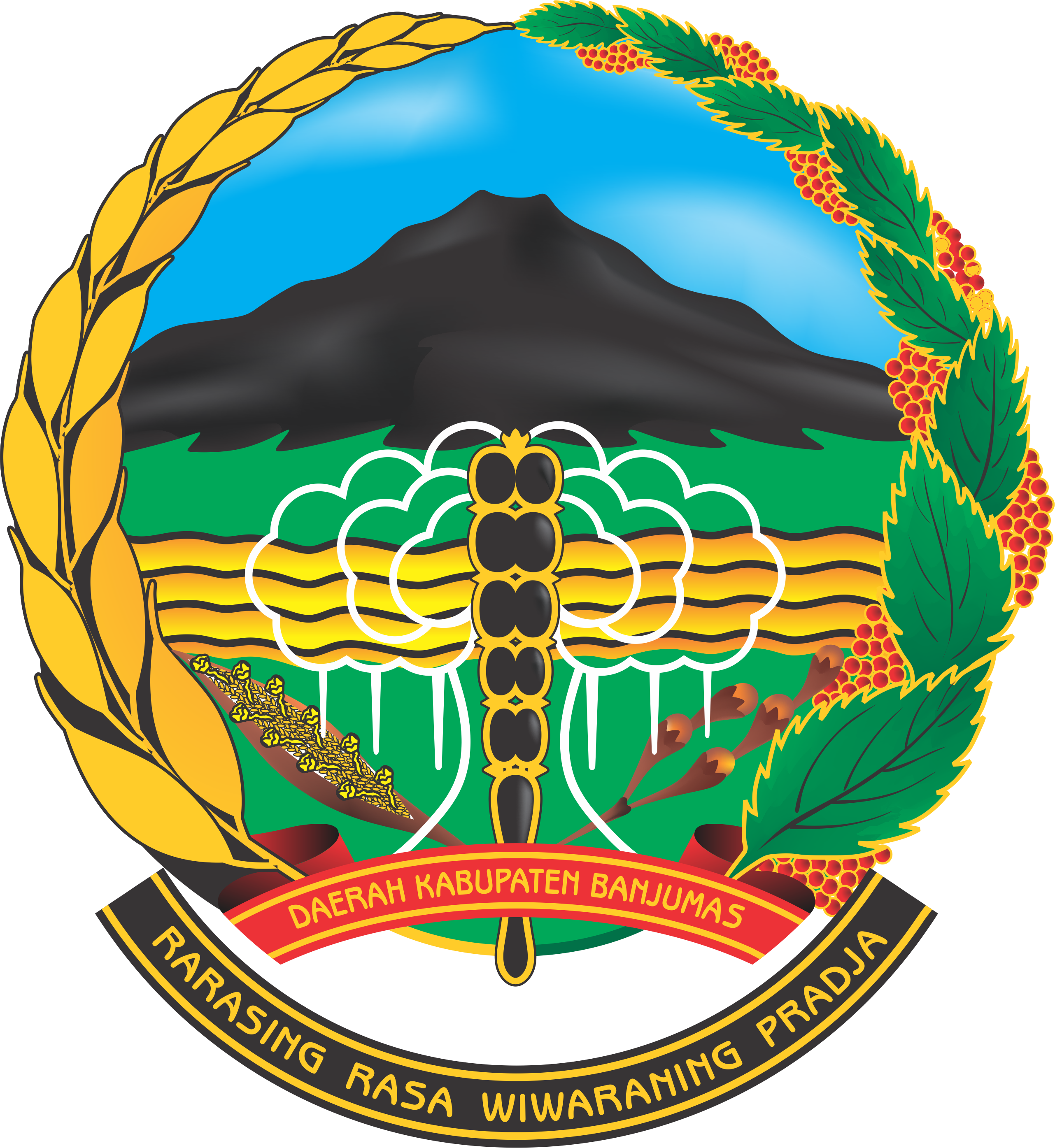 Coat of arms of Banyumas Regency